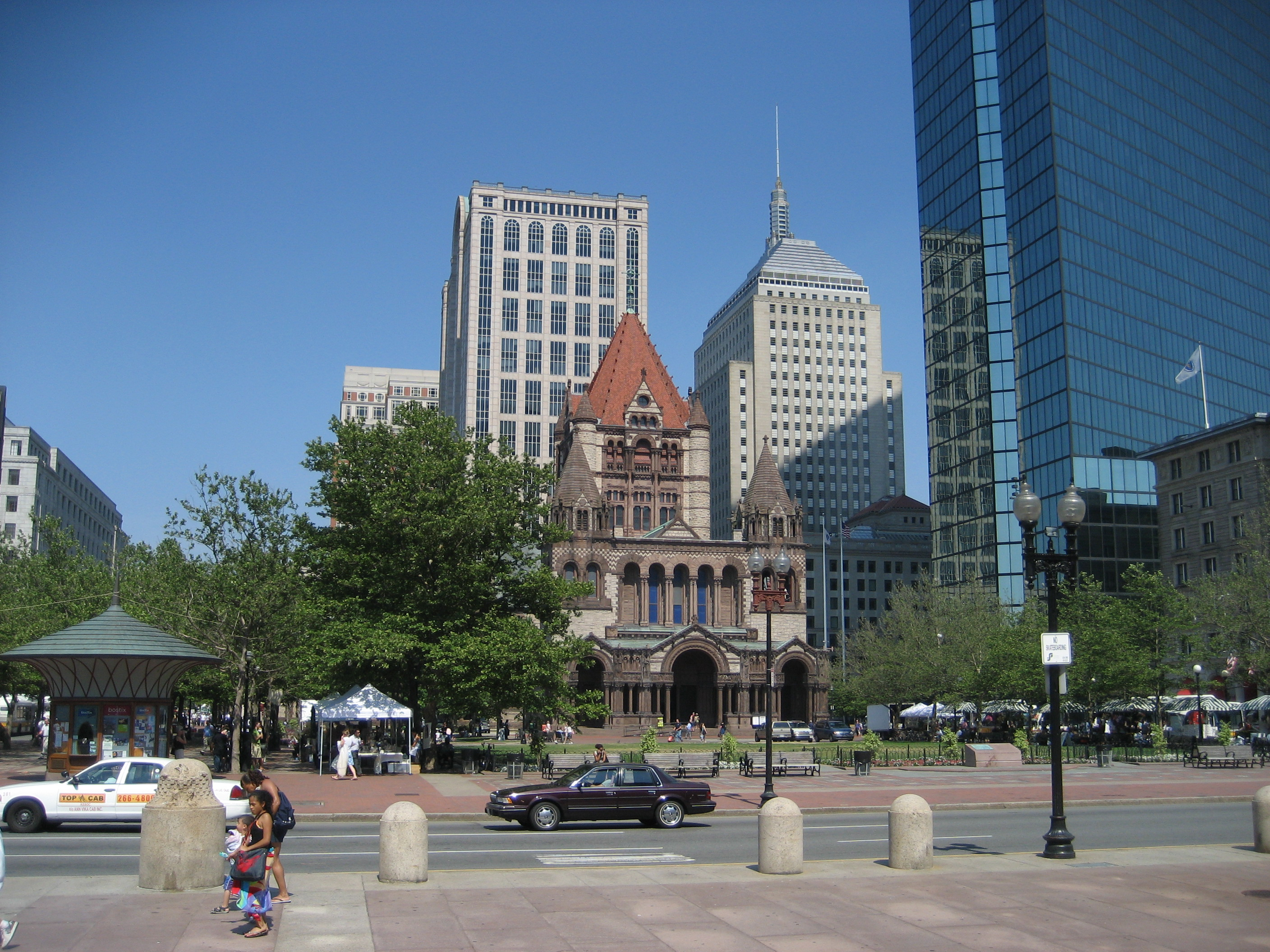 Boston Massachusetts: Copley Square, with Trinity Church across the Square. Bostix kiosk (at far left) designed by Graham Gund, 1992.